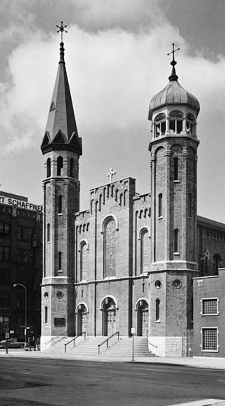 St. Patrick's Church, Adams & Desplaines Streets, Chicago (Cook County, Illinois) (cropped) This file comes from the Historic American Buildings Survey (HABS), Historic American Engineering Record (HAER) or Historic American Landscapes Survey (HALS). These are programs of the National Park Service established for the purpose of documenting historic places. Records consist of measured drawings, archival photographs, and written reports. This tag does not indicate the copyright status of the attached work. A normal copyright tag is still required. See Commons:Licensing for more information. This work is in the public domain in the United States because it is a work prepared by an officer or employee of the United States Government as part of that person’s official duties under the terms of Title 17, Chapter 1, Section 105 of the US Code. See Copyright. Note: This only applies to original works of the Federal Government and not to the work of any individual U.S. state, territory, commonwealth, county, municipality, or any other subdivision. This template also does not apply to postage stamp designs published by the United States Postal Service since 1978. (See § 313.6(C)(1) of Compendium of U.S. Copyright Office Practices). It also does not apply to certain US coins; see The US Mint Terms of Use. This file has been identified as being free of known restrictions under copyright law, including all related and neighboring rights.